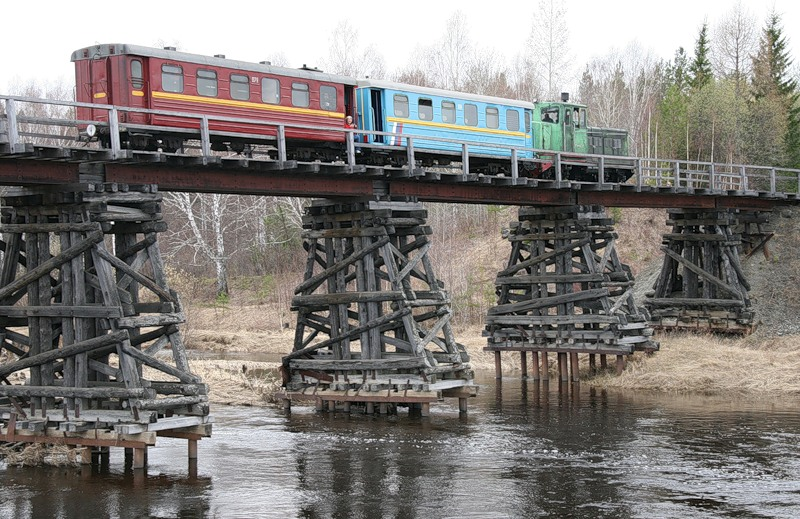 Bridge of Alapayevsk narrow-gauge railway over the Kyrtomka river